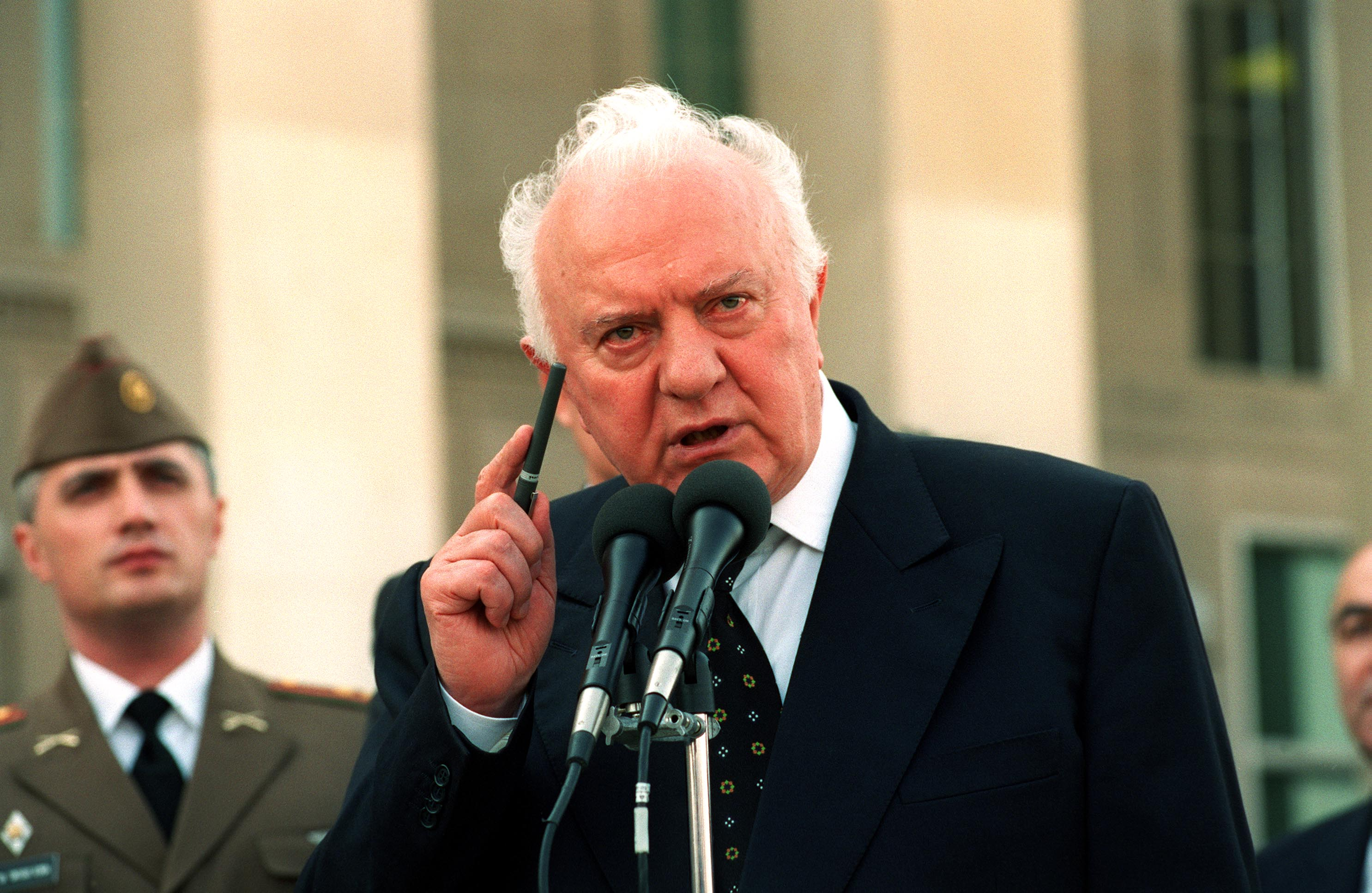 Georgian President Eduard Shevardnadze makes a point during a joint press availability with Deputy Secretary of Defense Paul Wolfowitz at the Pentagon on Oct. 5, 2001.